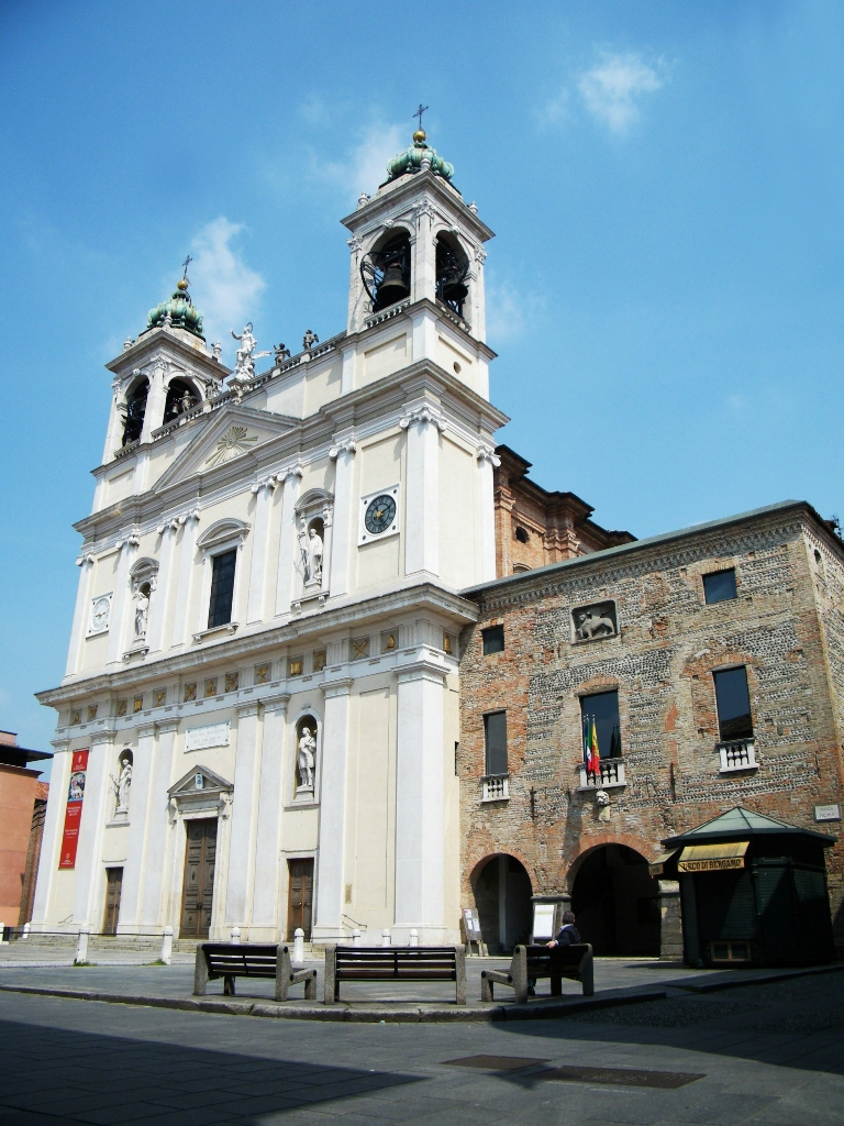 Church of St Mary and St James. Romano di Lombardia.